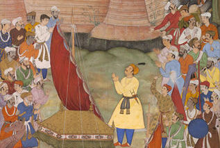 Emperor Akbar celebrates the Mughal conquest of Bengal